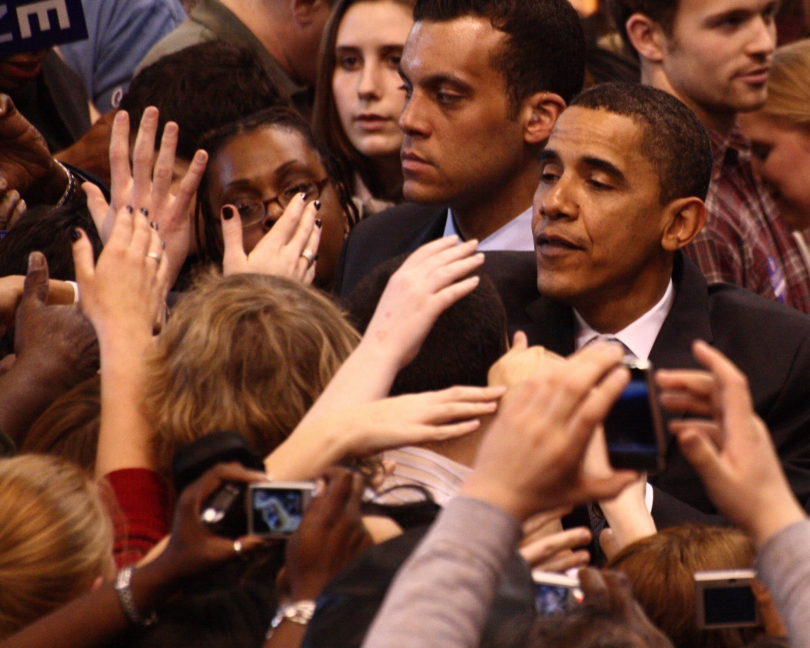 Senator Barack Obama shakes hands with supporters at the end of a rally at the XL Center in Hartford, Connecticut, the day before the Connecticut Super Tuesday primary.